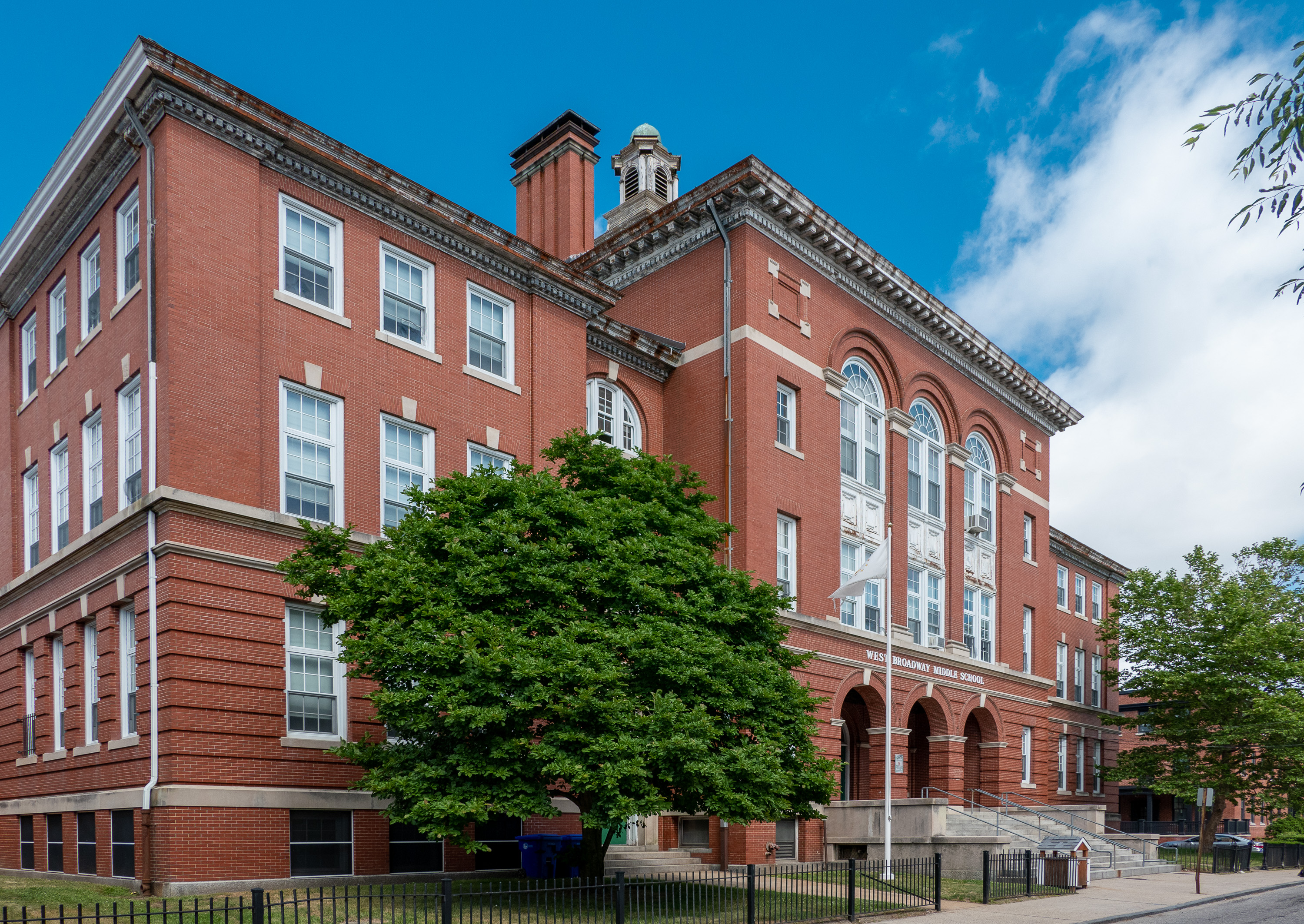 West Broadway Middle School, Bainbridge Ave, Providence RI